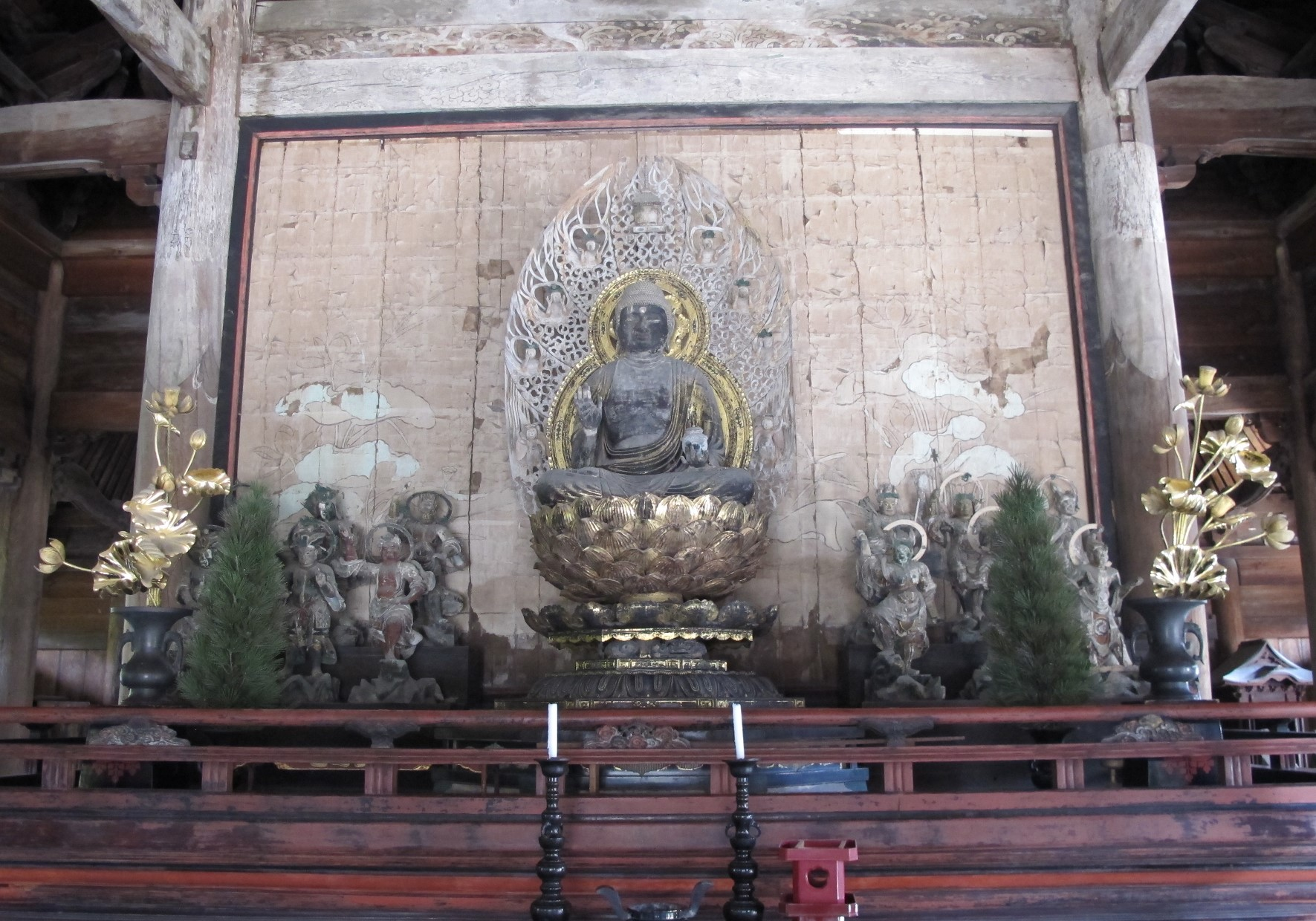 Fudôin interior